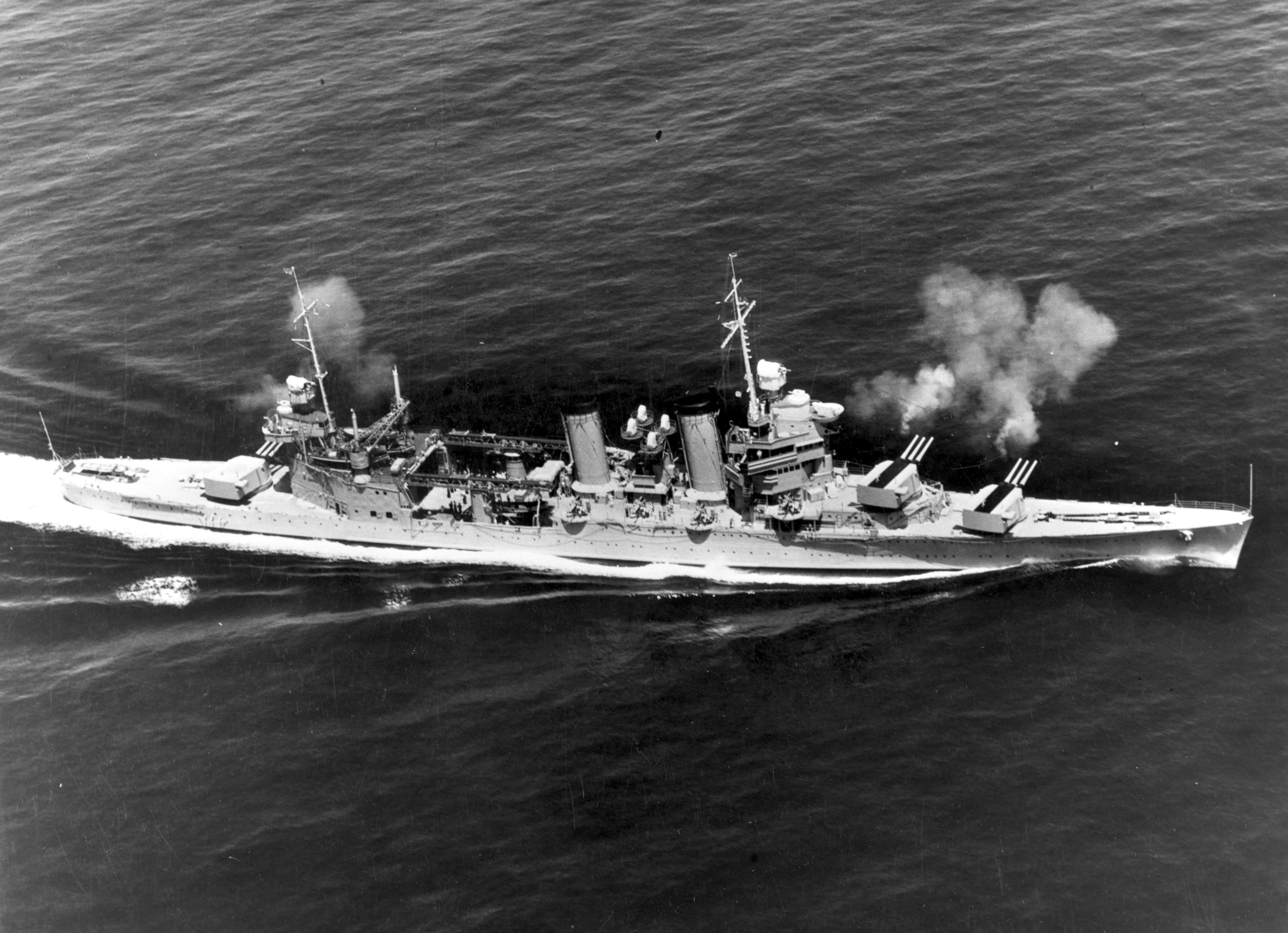 The U.S. Navy heavy cruiser USS Minneapolis (CA-36) firing her 8/55 main battery guns during battle practice, 29 March 1939. Note the stripes painted on the tops of her forward gun turrets.